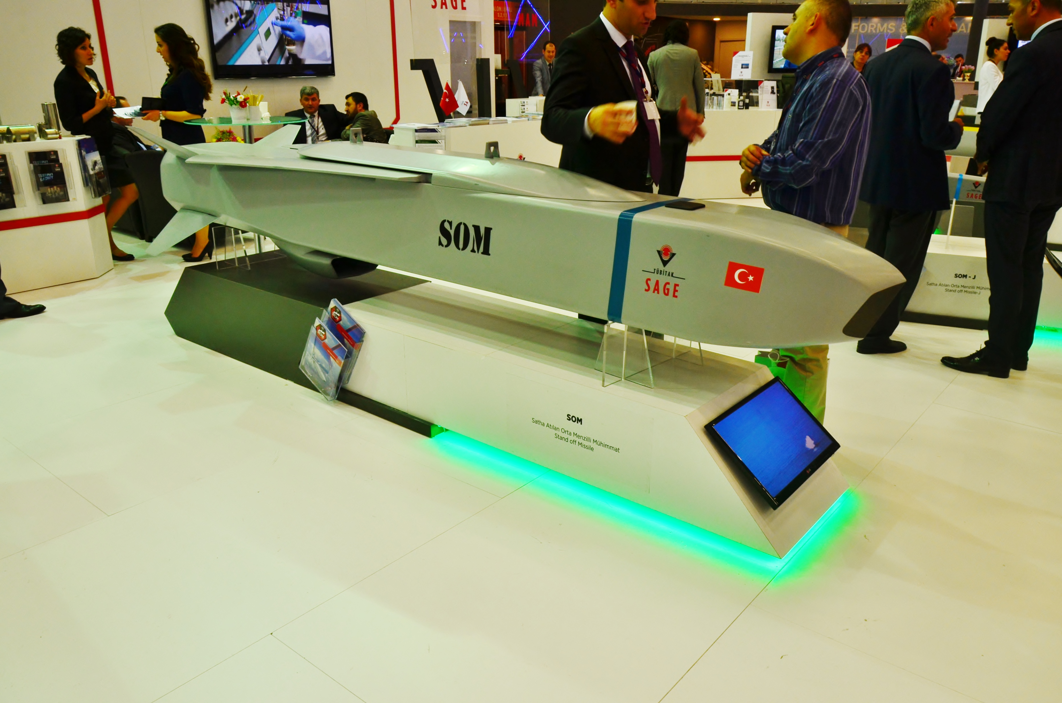 Stand-off missile SOM of Roketsan at IDEF 2015